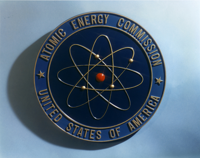 Logo of the United States Atomic Energy Commission (1946-1974).